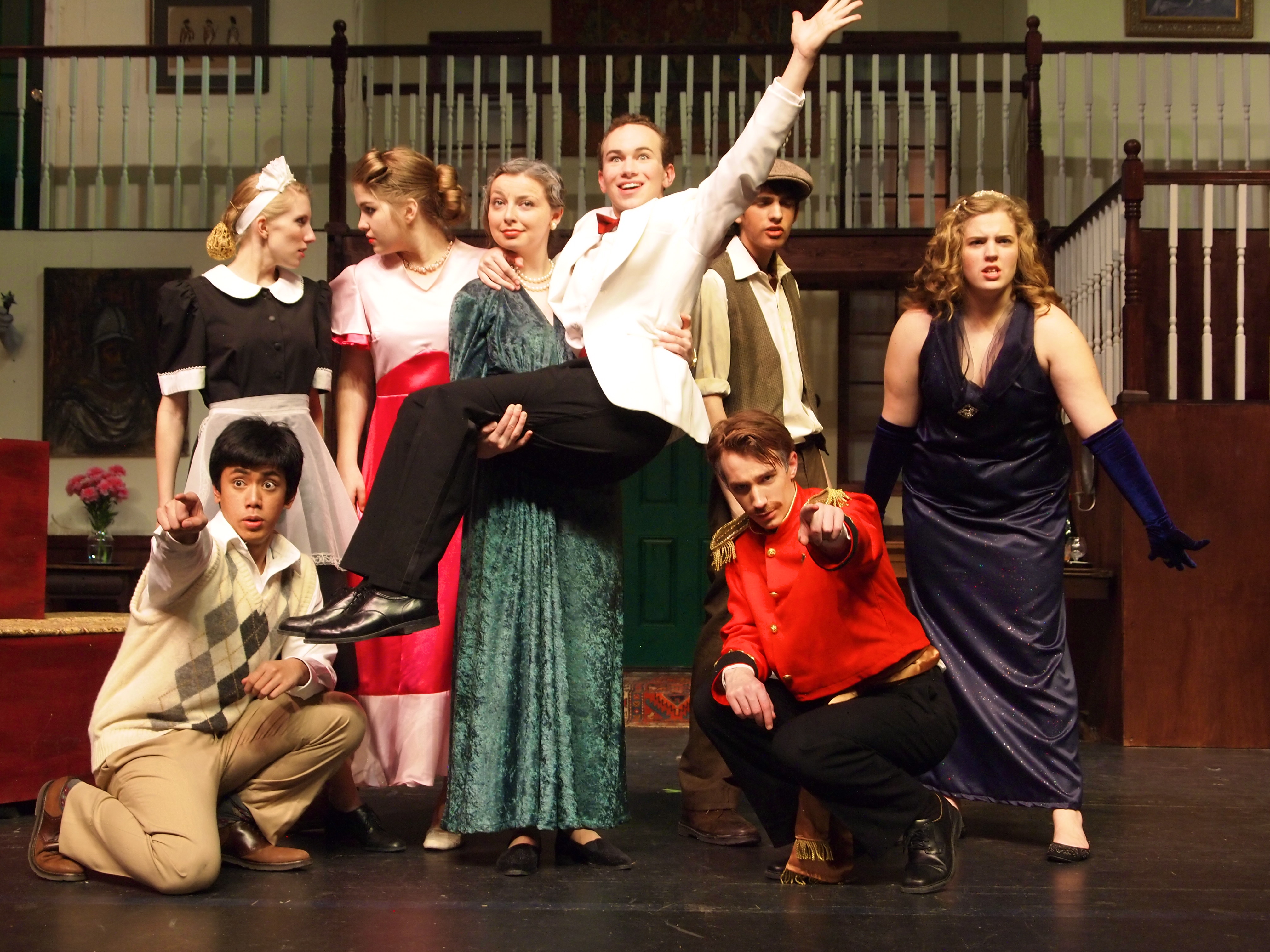 The cast of Something's Afoot at Bishop Ireton High School.